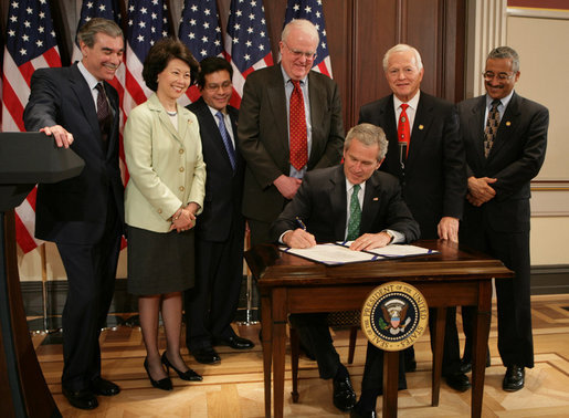 President George W. Bush signs the H.R. 32, the Stop Counterfeiting in Manufactured Goods Act, during ceremonies Thursday, March 16, 2006, in the Eisenhower Executive Office Building. Looking on are, from left: Secretary Carlos Gutierrez, Department of Commerce; Secretary Elaine Chao, Department of Labor; Attorney General Alberto Gonzales; U.S. Rep. Jim Sensenbrenner (R-Wis.); U.S. Rep.Joe Knollenberg (R-Mich.), and U.S. Rep. Bobby Scott (D-Va.). White House photo by Kimberlee Hewitt